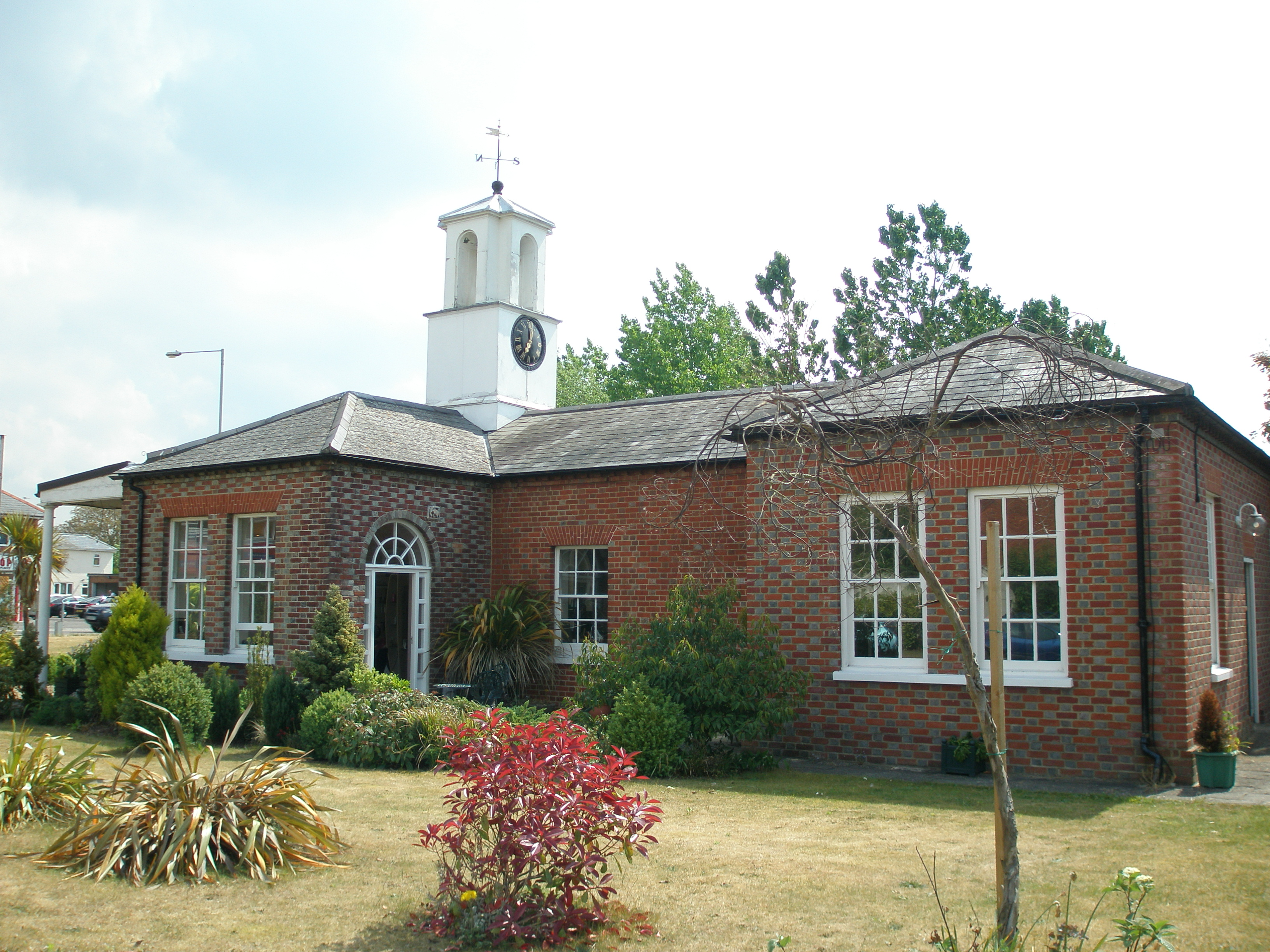 The old guard house, part of what was once Christchurch barracks but has been a housing estate since 1996.